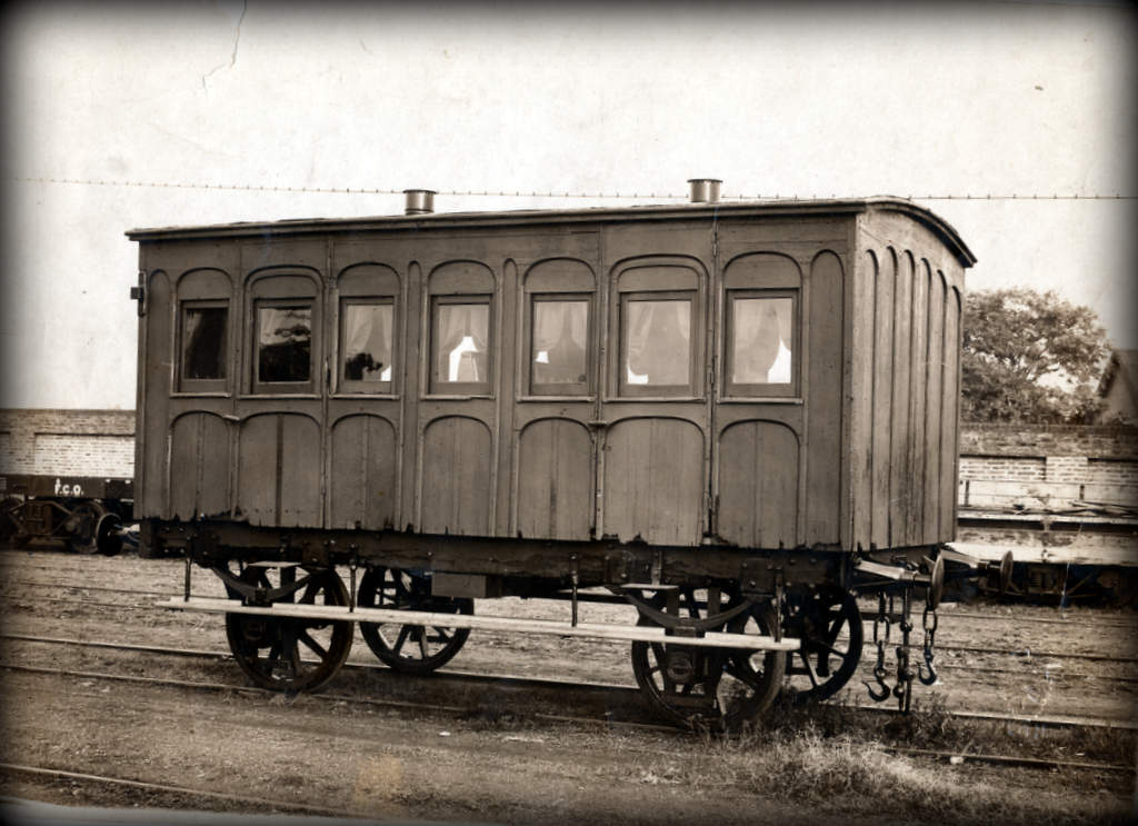 Passenger coach of BA Western Railway.